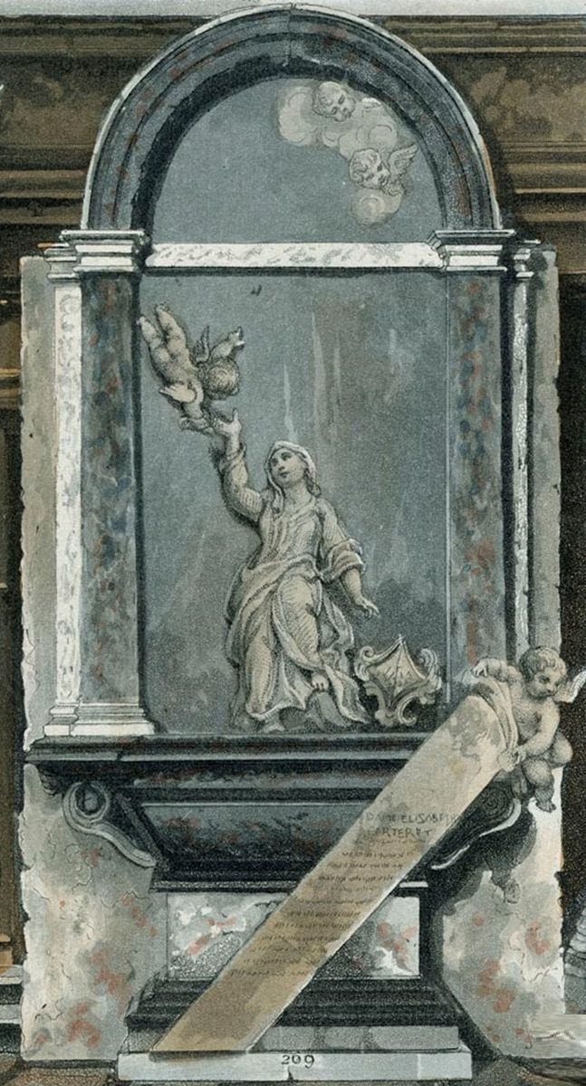 Text from "In the north aisle of the nave of Westminster Abbey is a monument to Dame Elizabeth Carteret. The inscription reads: Near this place lyeth buried DAME ELIZABETH CARTERET daughter of Sr. EDWARD CARTERET, Knt.[Knight], Gent. Usher of ye Black Rod in the reign of K.Charles the Second Relict [widow] of Sr. PHILIP CARTERET Bart. [Baronet] and by him mother of Sr. CHARLES CARTERET Bart. her only son, interred likewise near this place by whose decease June ye 6th A.D.1715 in ye 34th year of his age, was extinguished the eldest branch of the antient family of the name of Carteret Seigneurs of St.Ouen in ye Island of Jersey. She died March ye 26th A.D.1717 aged 52 years. Her monument originally consisted of her figure ascending from a sarcophagus extending a hand to an angel. In an arch a group of cherubs were shown in clouds. There was also a coat of arms. The inscription was on a narrow slab. By 1847 the monument had become dilapidated and was taken down by Lord John Thynne, Sub-Dean of the Abbey and representative of the Carteret family. He took all but the inscription slab to Hawnes (or Haynes) Park in Bedfordshire. Elizabeth was born on 30th December 1663 and baptised at St Martin in the Fields church in London. At age 13 she married her kinsman Sir Philip Carteret (died 1693) 2nd Baronet of St Ouen, Jersey in the Channel Islands. Her son Charles was baptised at St Margaret's Westminster on 4th June 1679 with Charles II as one of his godfathers. He was Gentleman of the Privy Chamber to Queen Anne and High Bailiff of Jersey. In 1693 he succeeded as 3rd Baronet and married Mary, daughter of Amias Carteret. His son James had no surviving issue so the title became extinct".